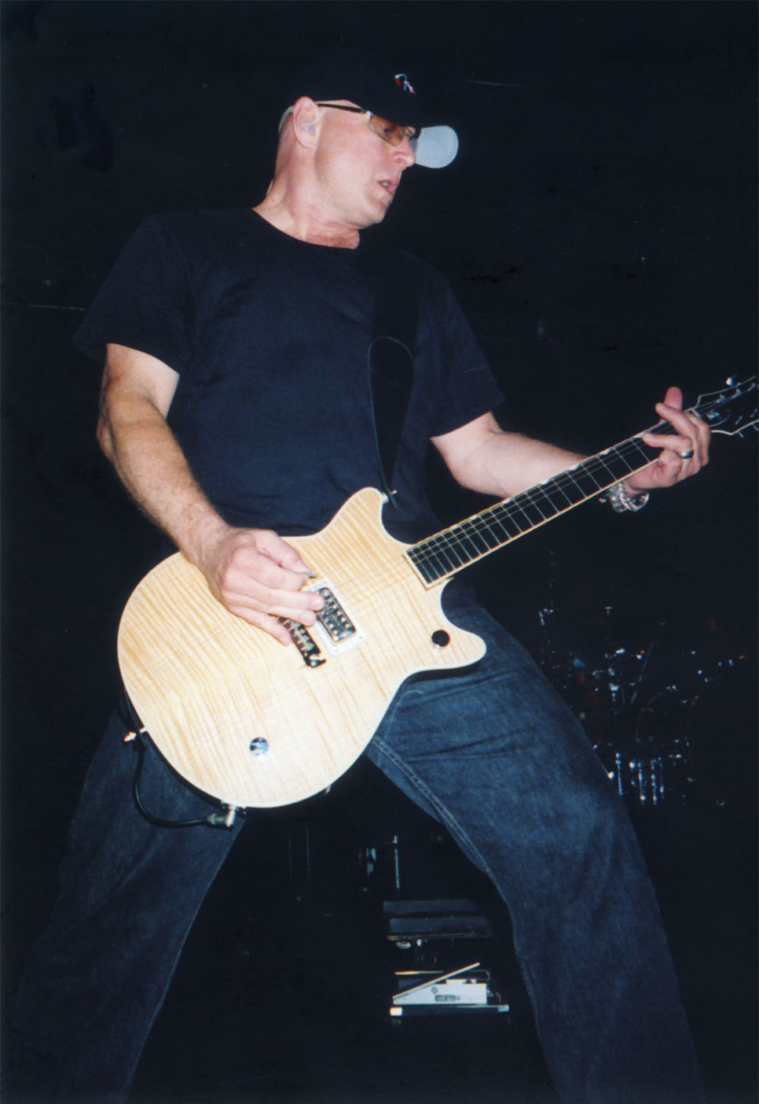 Concert photo taken by myself at SOMA on September 14th, 2005